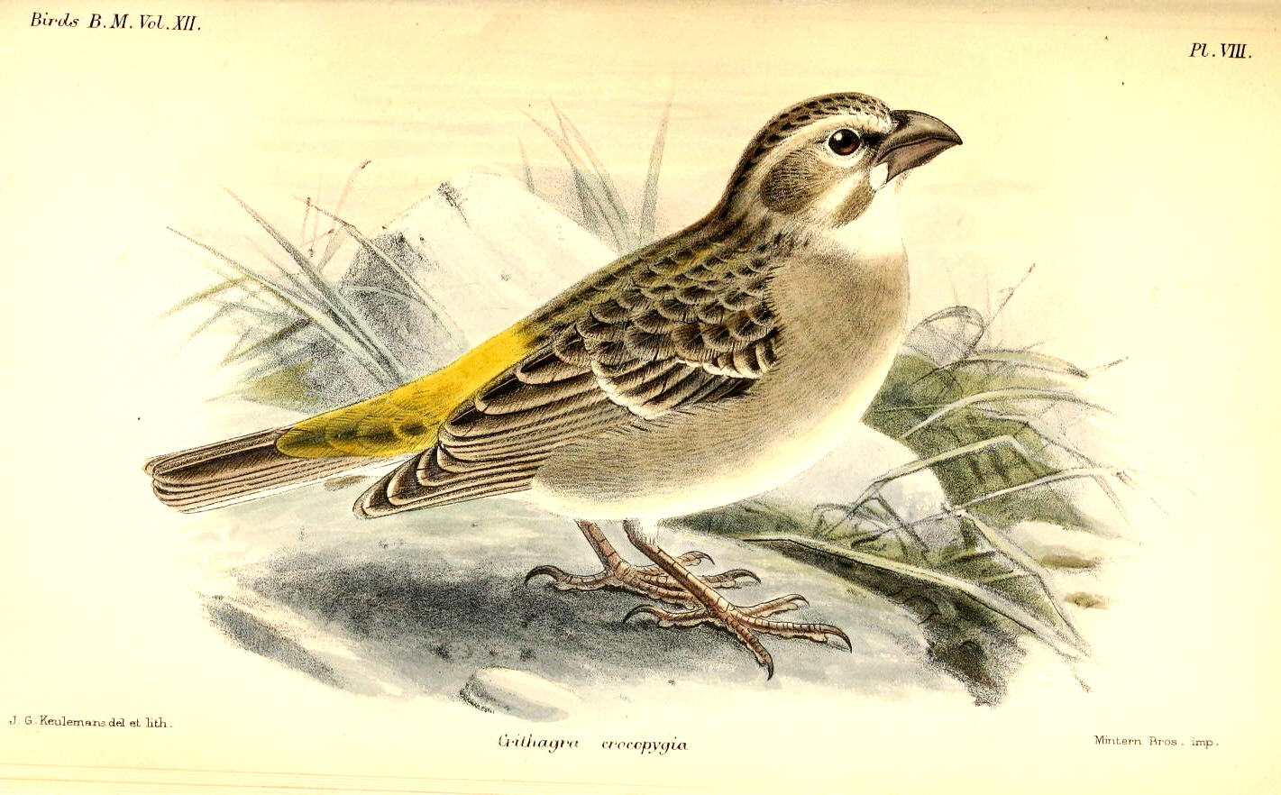 Crithagra crocopygia = Serinus albogularis, White-throated Canary